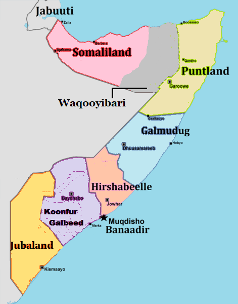 Federation Somáli